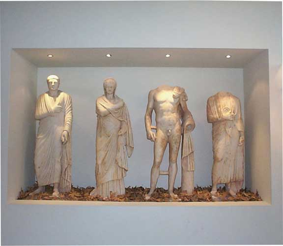 Four Statues from the Heroon at Palatiano, image from the Archaeological Museum, Kilkis, Central Macedonia, Greece